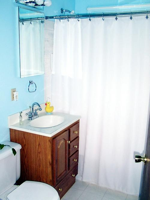 An American bathroom of a freshly renovated house.